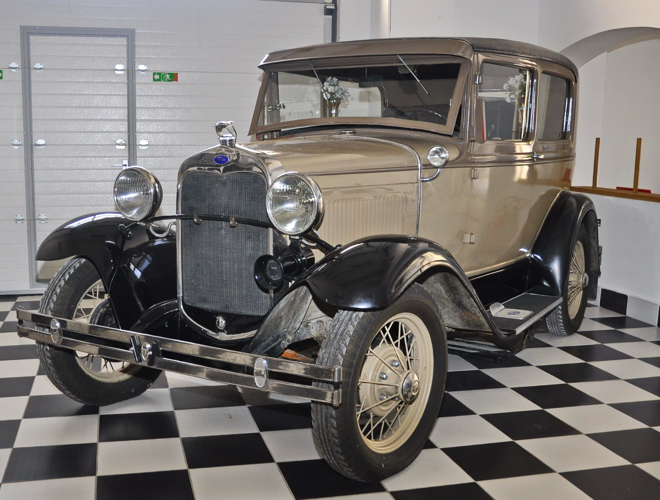 Ford model A, 1930-1931. It is located in Museum of Science and Technology Belgrade.